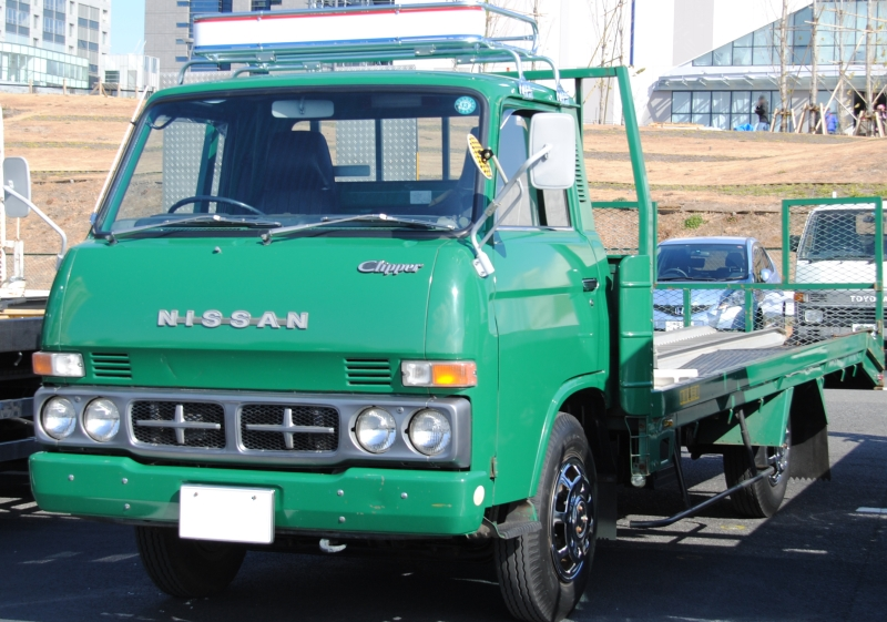 Nissan Clipper